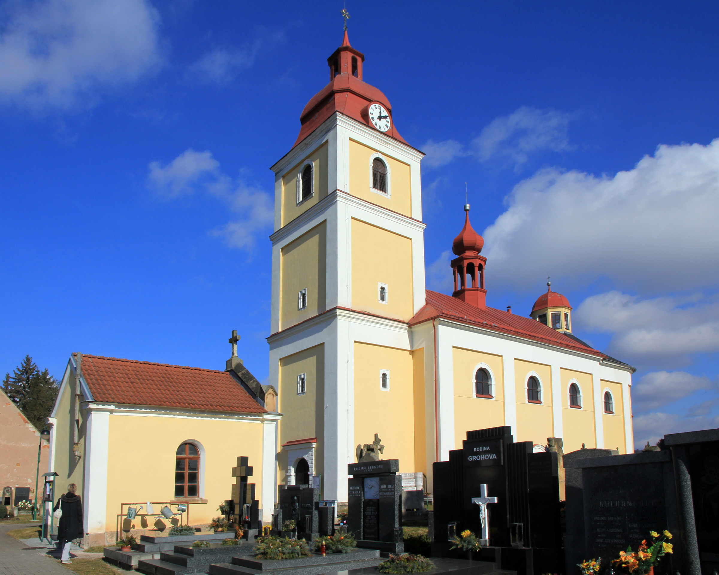 Church of All Saints in Lázně Bělohrad, Czech Republic